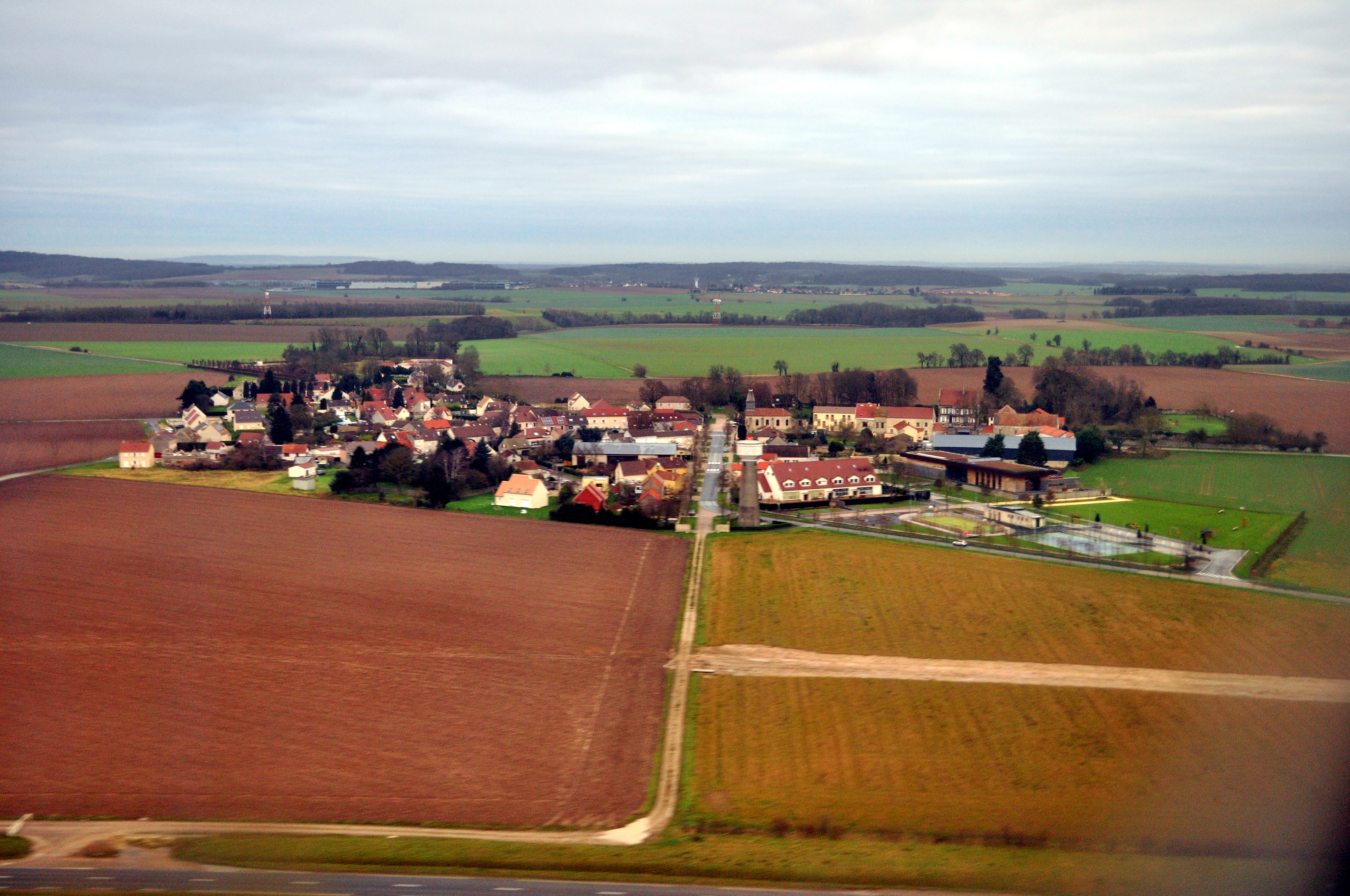 Aerial photograph of Mauregard near Charles De Gaulle Airport, Seine-et-Marne, France.